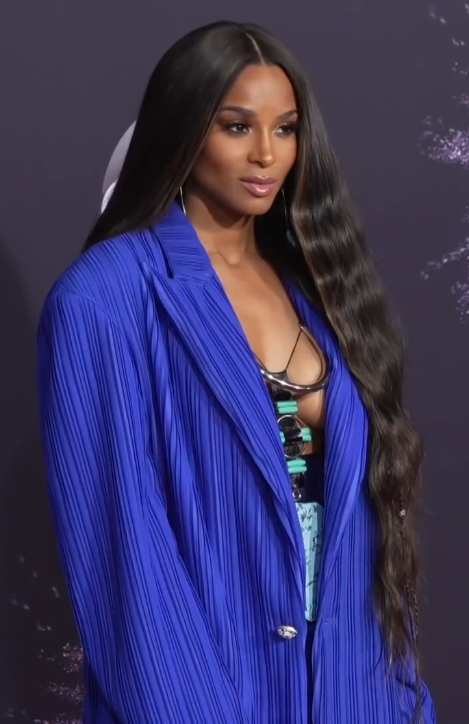 Ciara at the 2019 American Music Awards red carpet